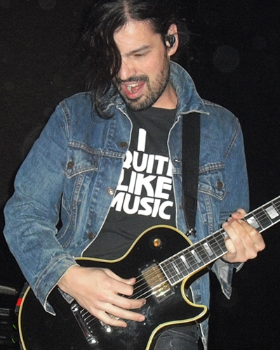 Thirty Seconds to Mars performing in North Gate, Baton Rouge, on February 18, 2010